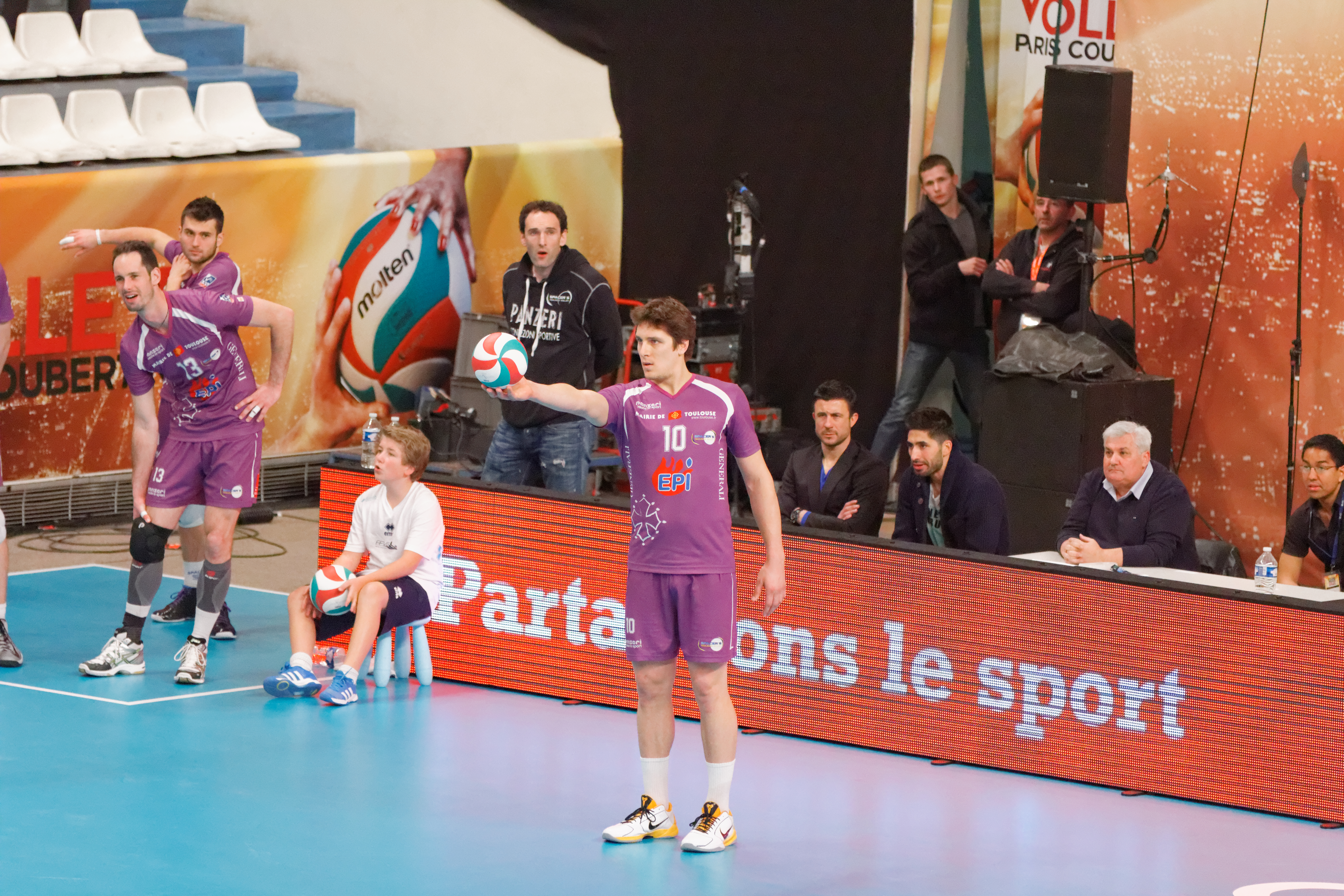 Final of the Volleyball French Cup, Tours Volley-Ball - Spacer's Toulouse Volley, March 30, 2013. Evan Patak.